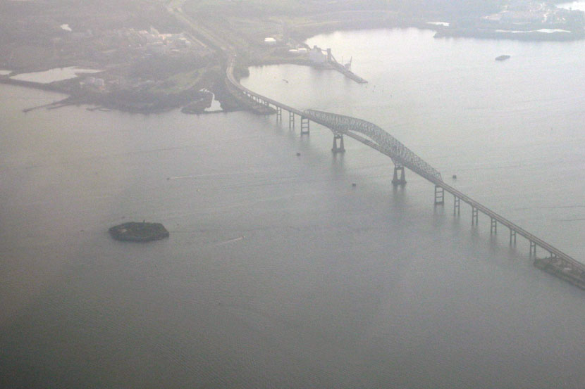 Oblique air photo of Fort Carroll, next to the Key Bridge in Baltimore, Maryland. August 2010.